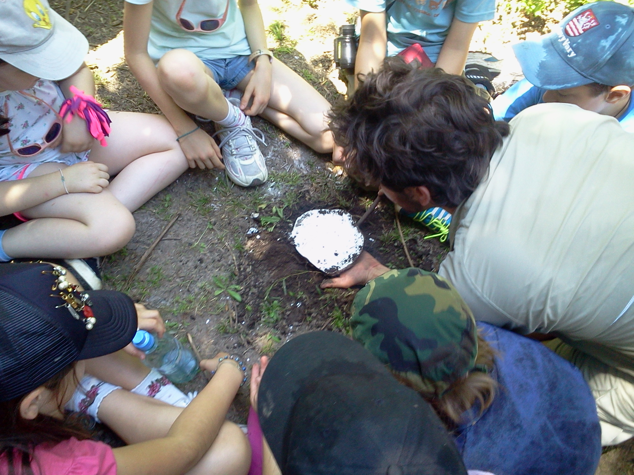 Conservation Safari with children in Martín García Island